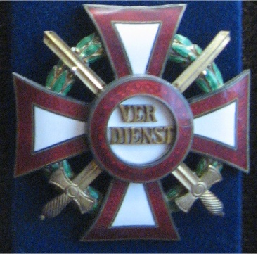 The Austrian Millitary Merit Cross 1.Class with War Decorations and Swords